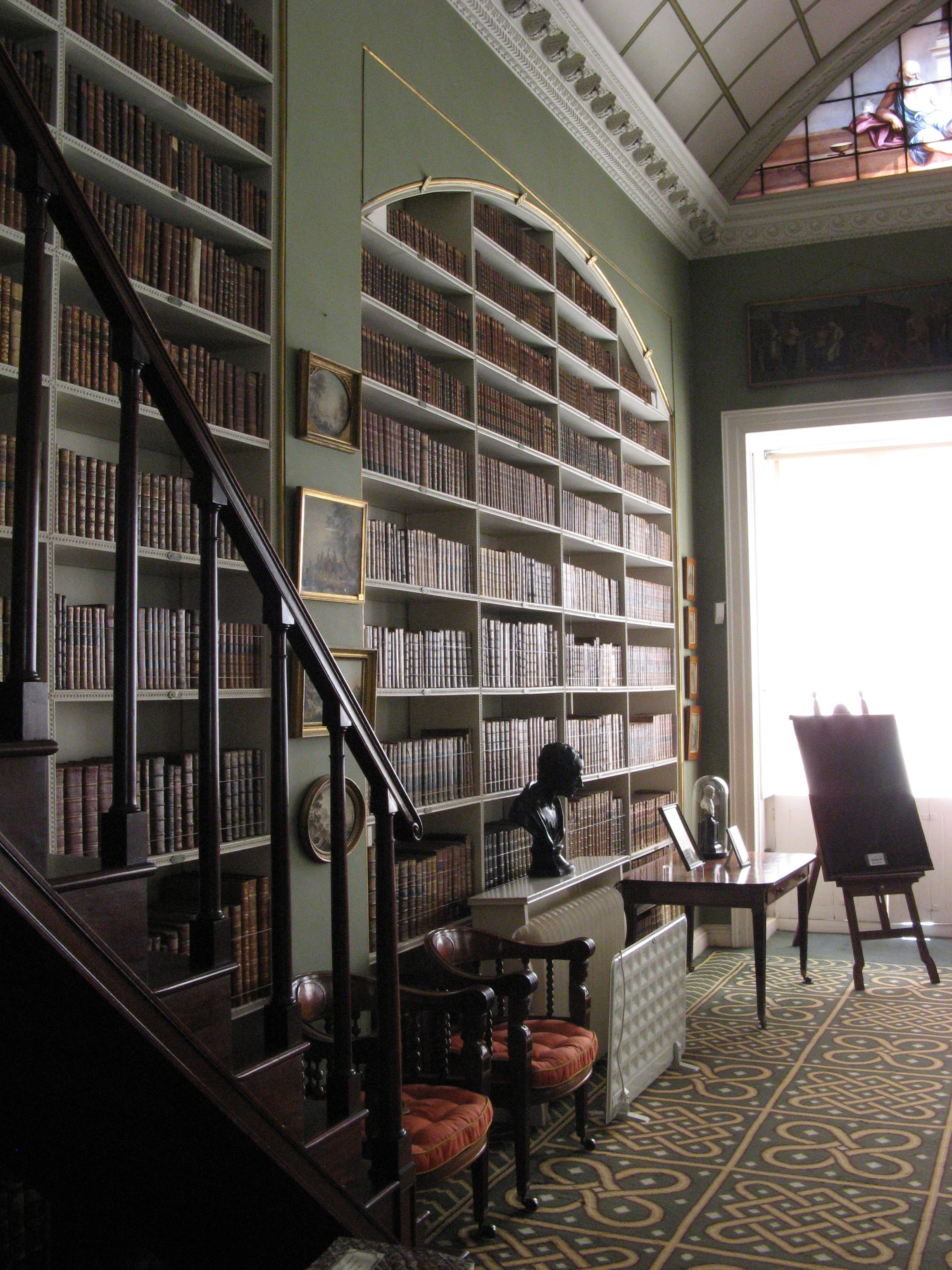 The south-west corner of the Library at Stourhead House.